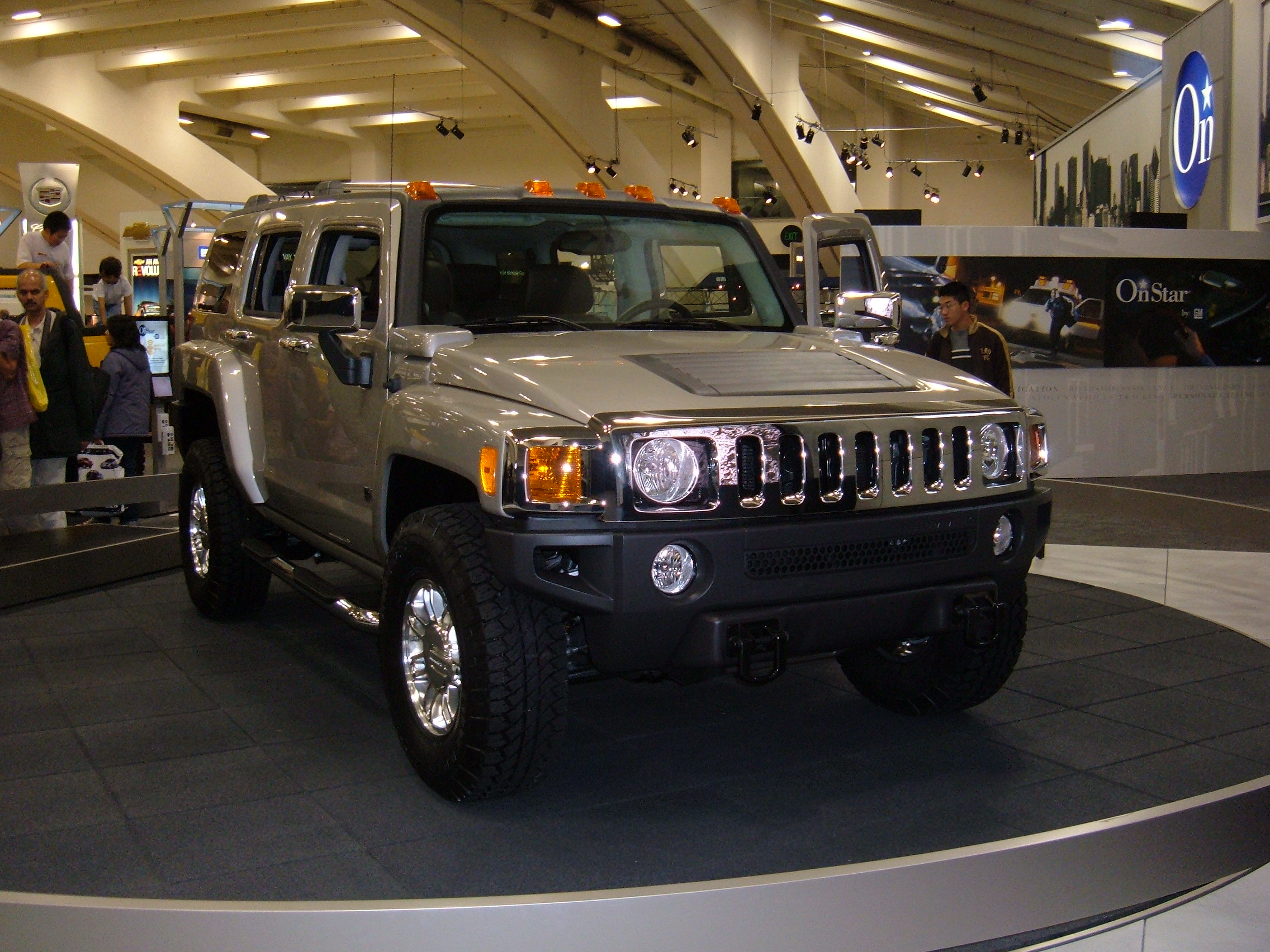 A 2005 Hummer H3 at the 2004 San Francisco International Auto Show.